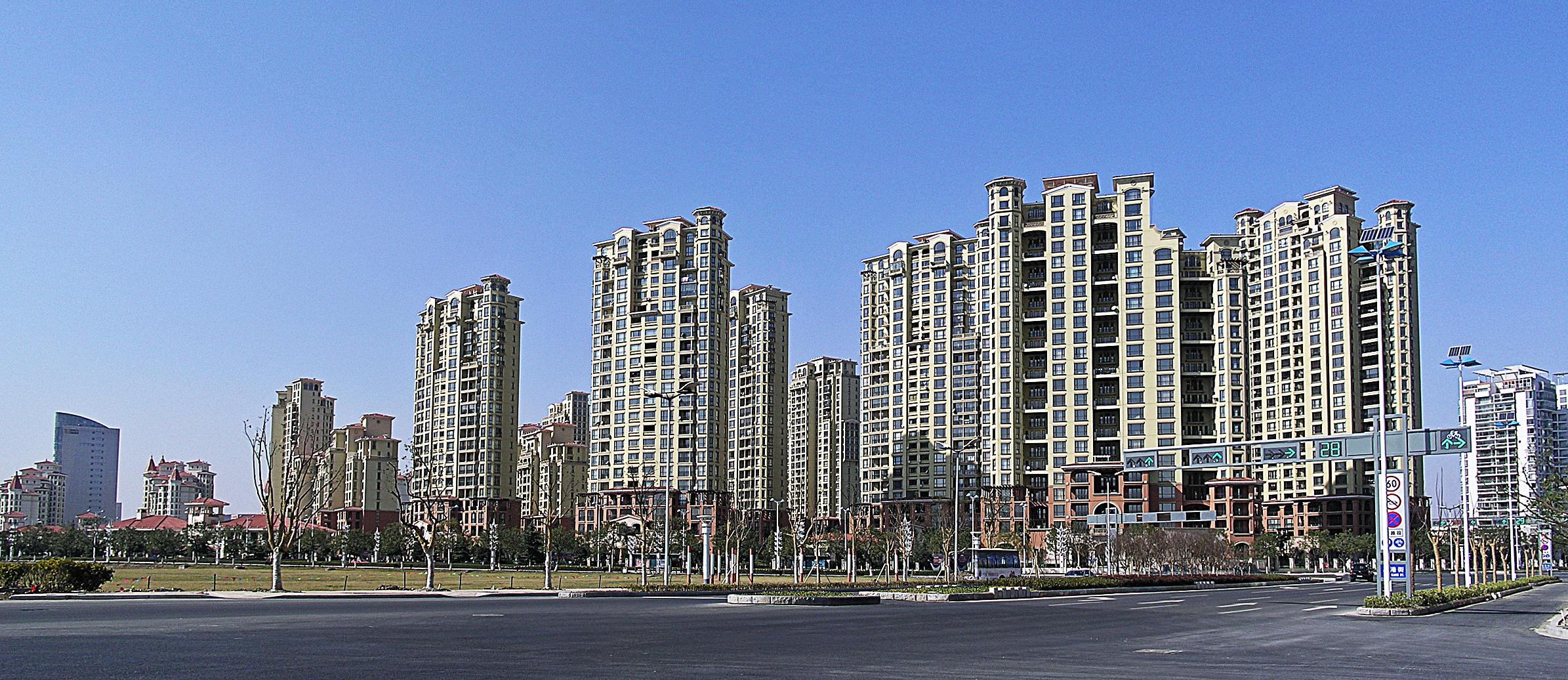 Horizon Resort Apartment in Suzhou Industrial Park, China